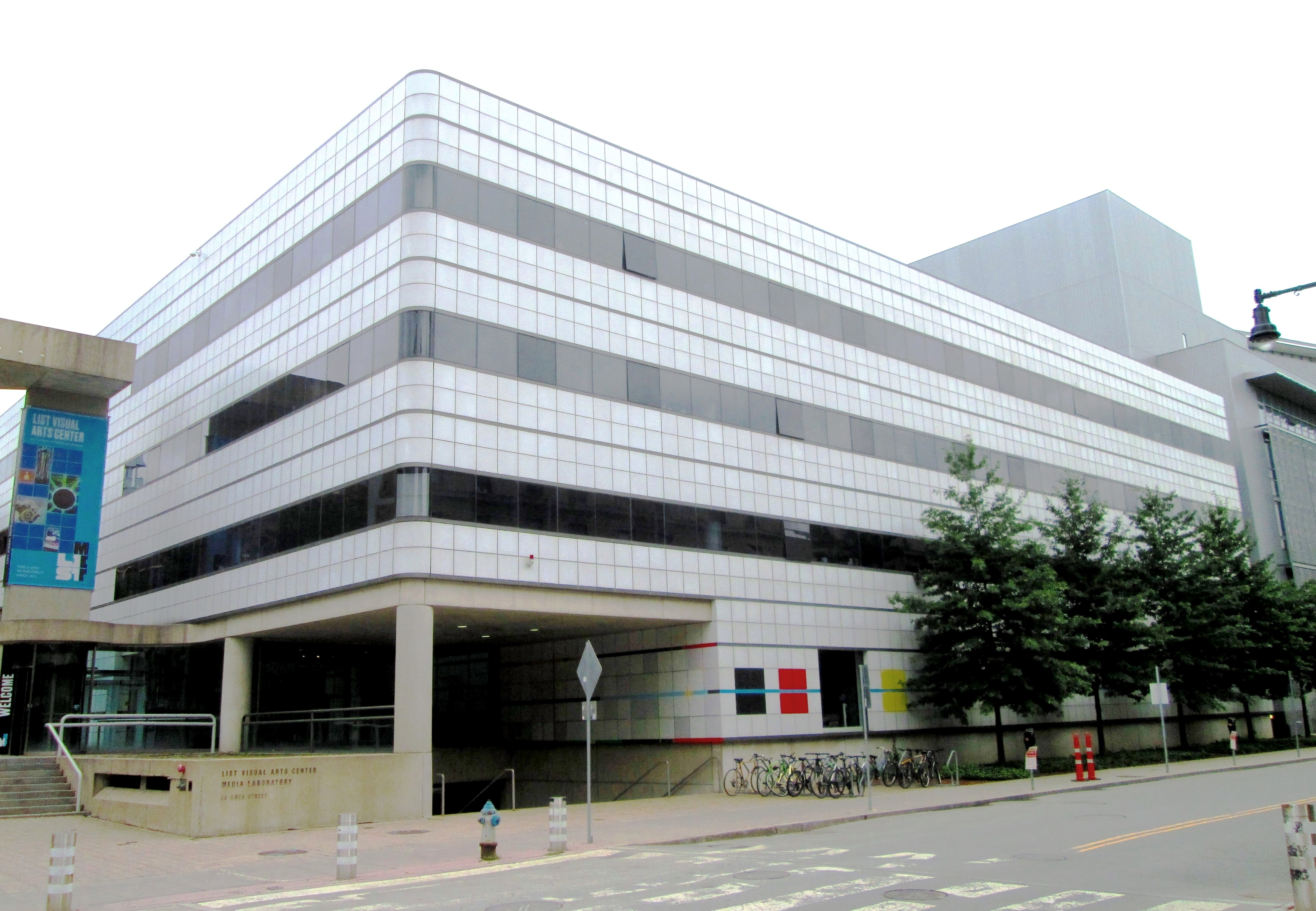 The Wiesner Building. also known as MIT Building E15, located at 20 Ames Street in Cambridge, Massachusetts, was built in 1985 and was designed by I. M. Pei & Partners in collaboration with artists Kenneth Noland, Scott Burton, and Richard Fleischner. It houses the MIT Media Lab and the List Visual Arts Center. (Source: AIA Guide to Boston (3rd ed.)